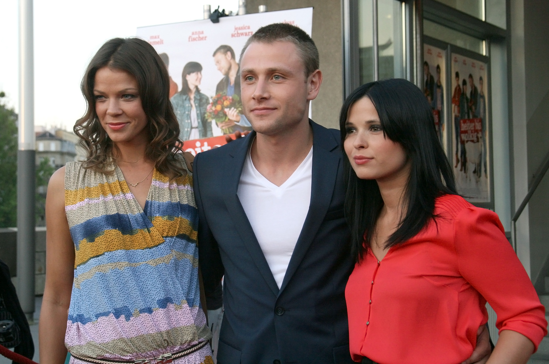 Anna Fischer, Jessica Schwarz and Max Riemelt at the Austrian premiere of Heiter bis wolkig at Urania cinema in Vienna, Austria.